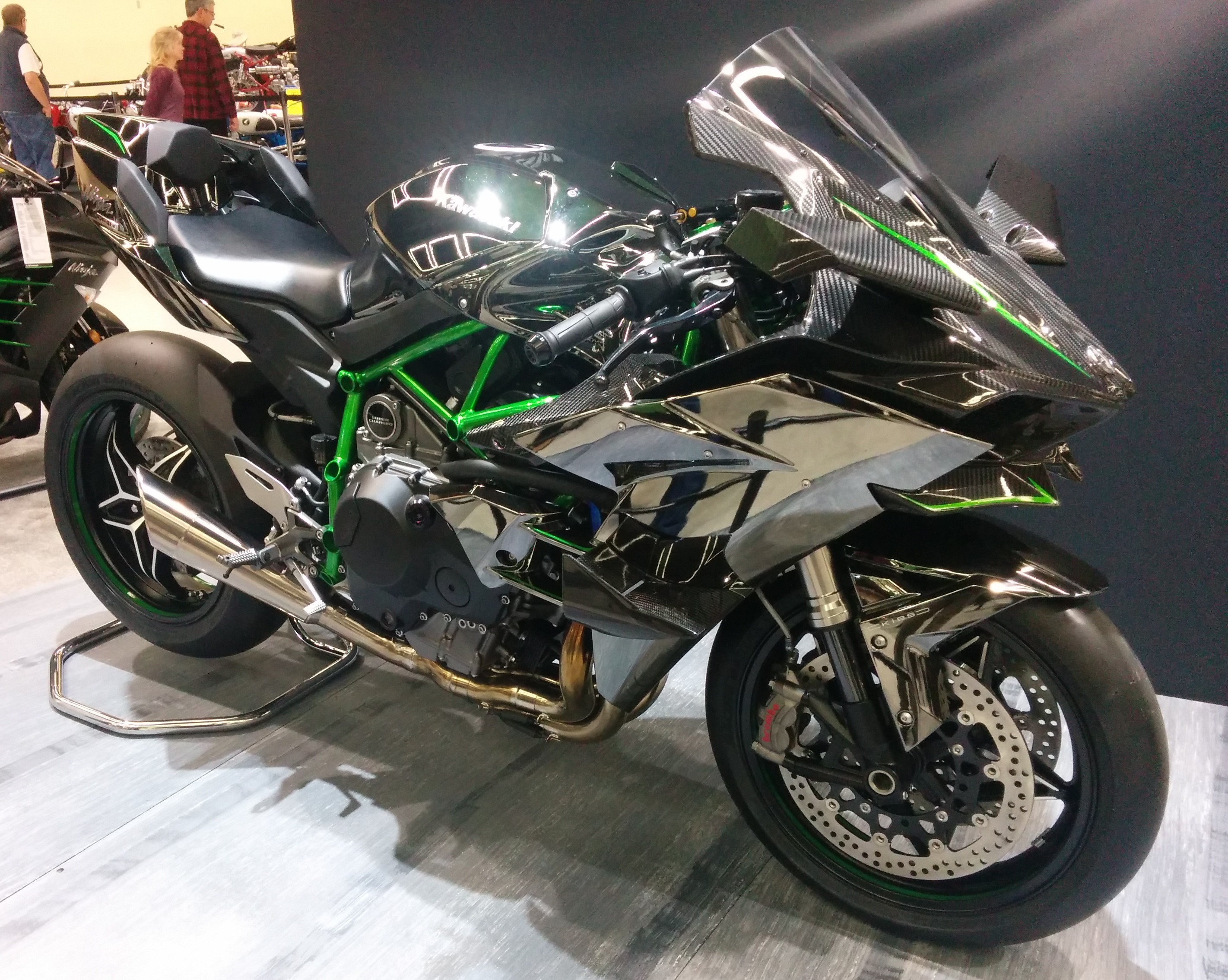 Kawasaki Ninja H2 at the Seattle motorcycle show